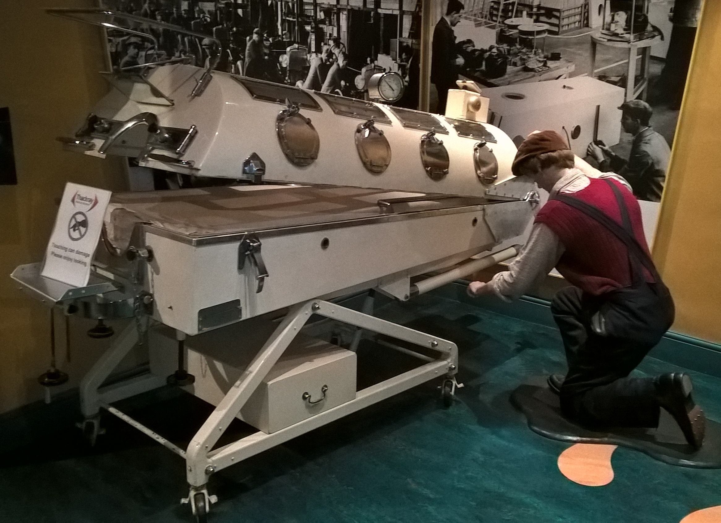 Both-Nuffield iron lung display at the Thackray Medical Museum, Leeds. The display recounts and shows how the equipment was manufactured in large numbers at low cost using the production line of Morris Motors at Cowley, UK, and some of the design features of car bodies.